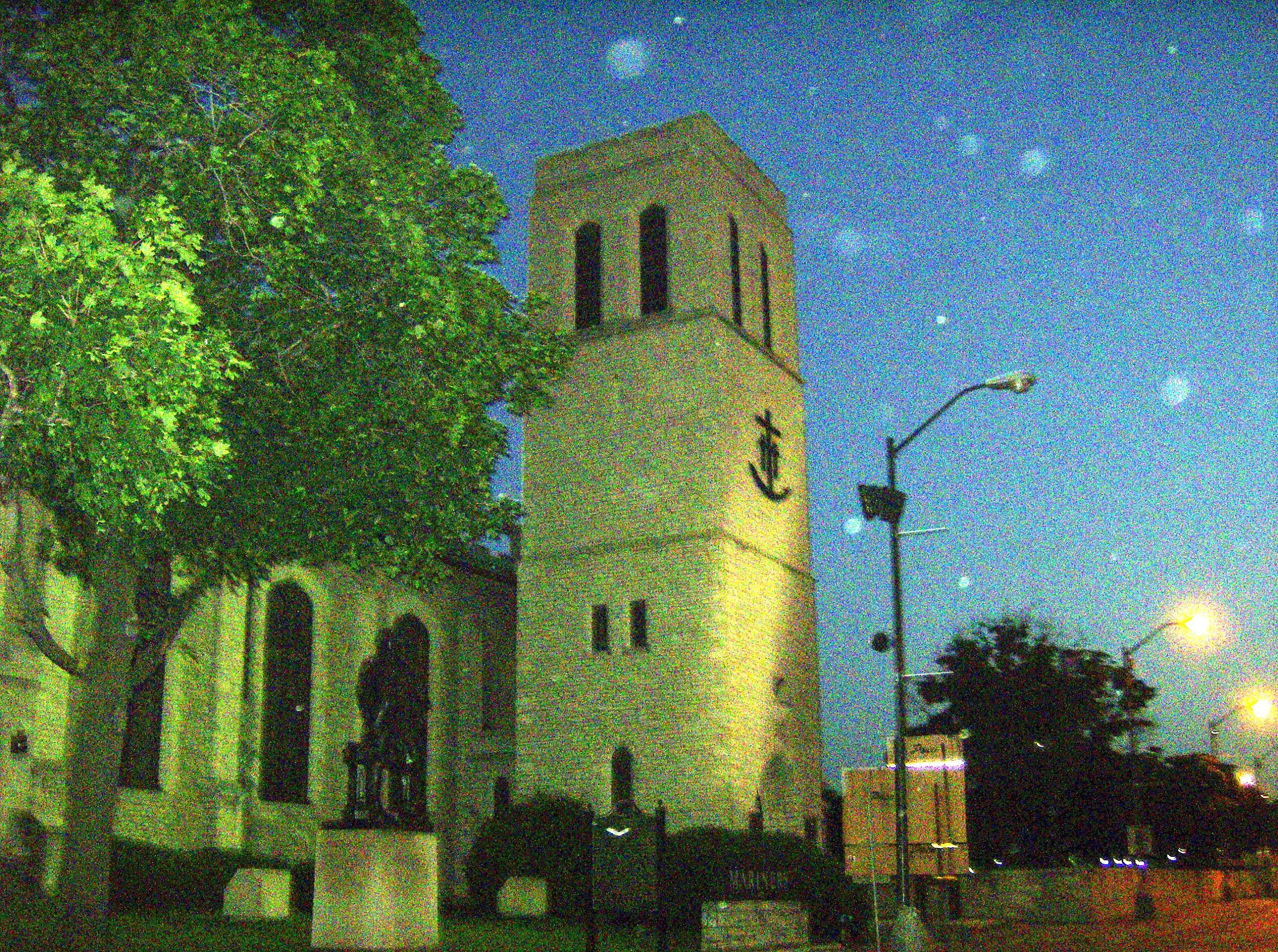 Mariners' Church bell tower — Detroit, Michigan. The church offers several blessings of the mariners services each year. The church's adjacent Mariners' Inn is the location of Great Lakes mariners' (sailors) social services.